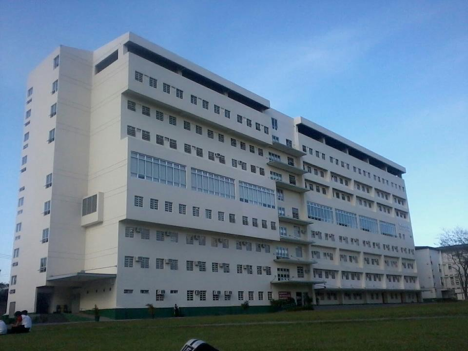 UE Caloocan EHSD Department